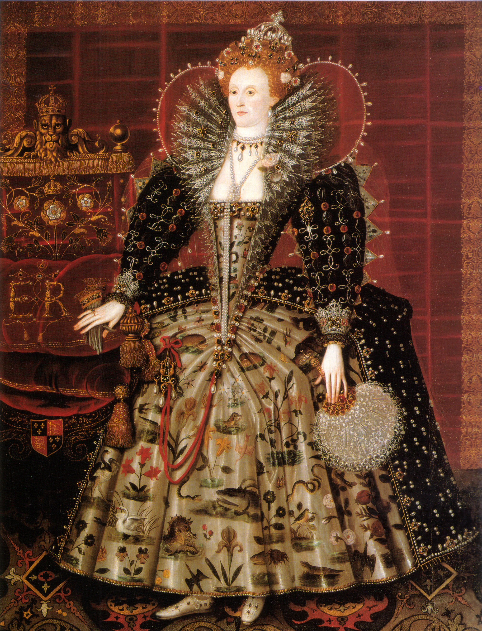 The "Hardwick Hall" portrait of Elizabeth I of England.